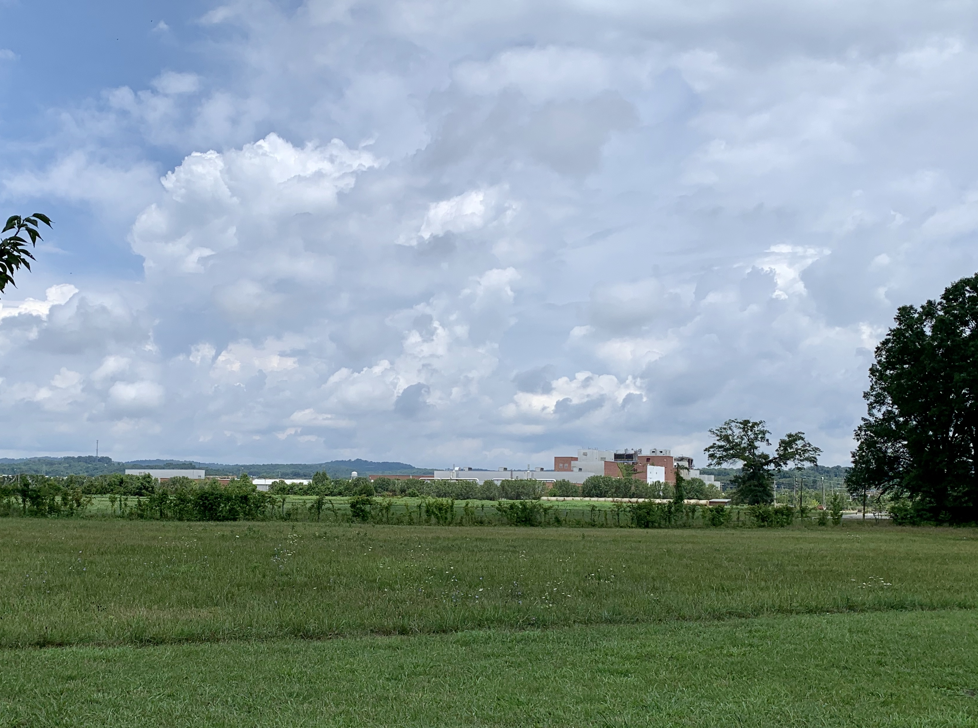 Former site of Liberty Fibers/BASF/American Enka Company in Lowland, Tennessee. The City of Morristown has since annexed the site.